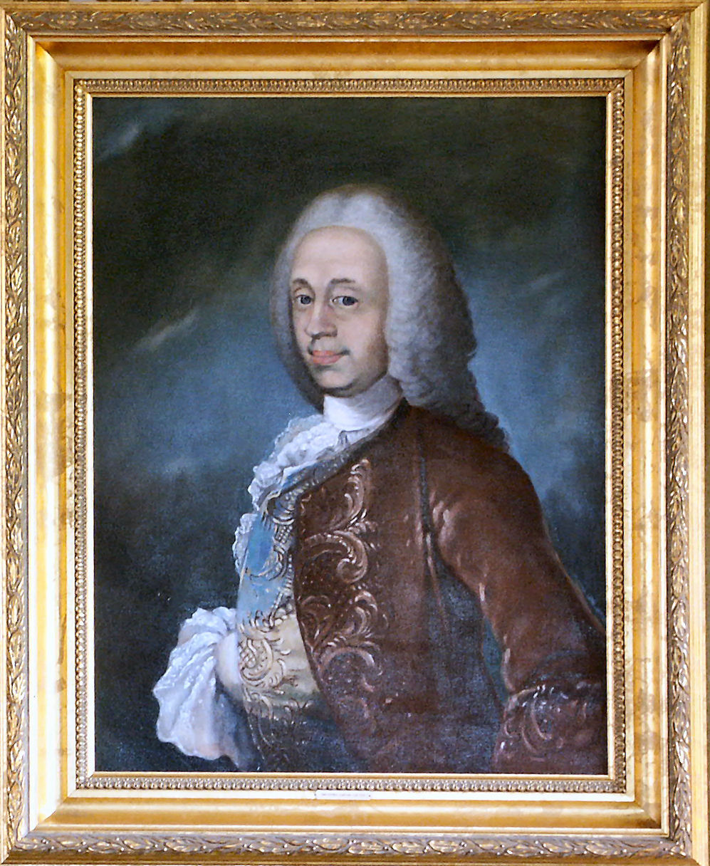 Utstein monastery, Rennesøy municipality, Rogaland county, Norway. Portrait of Christopher Garman. Painted copy of the original painting. Photo: Frode Inge Helland. 2006.